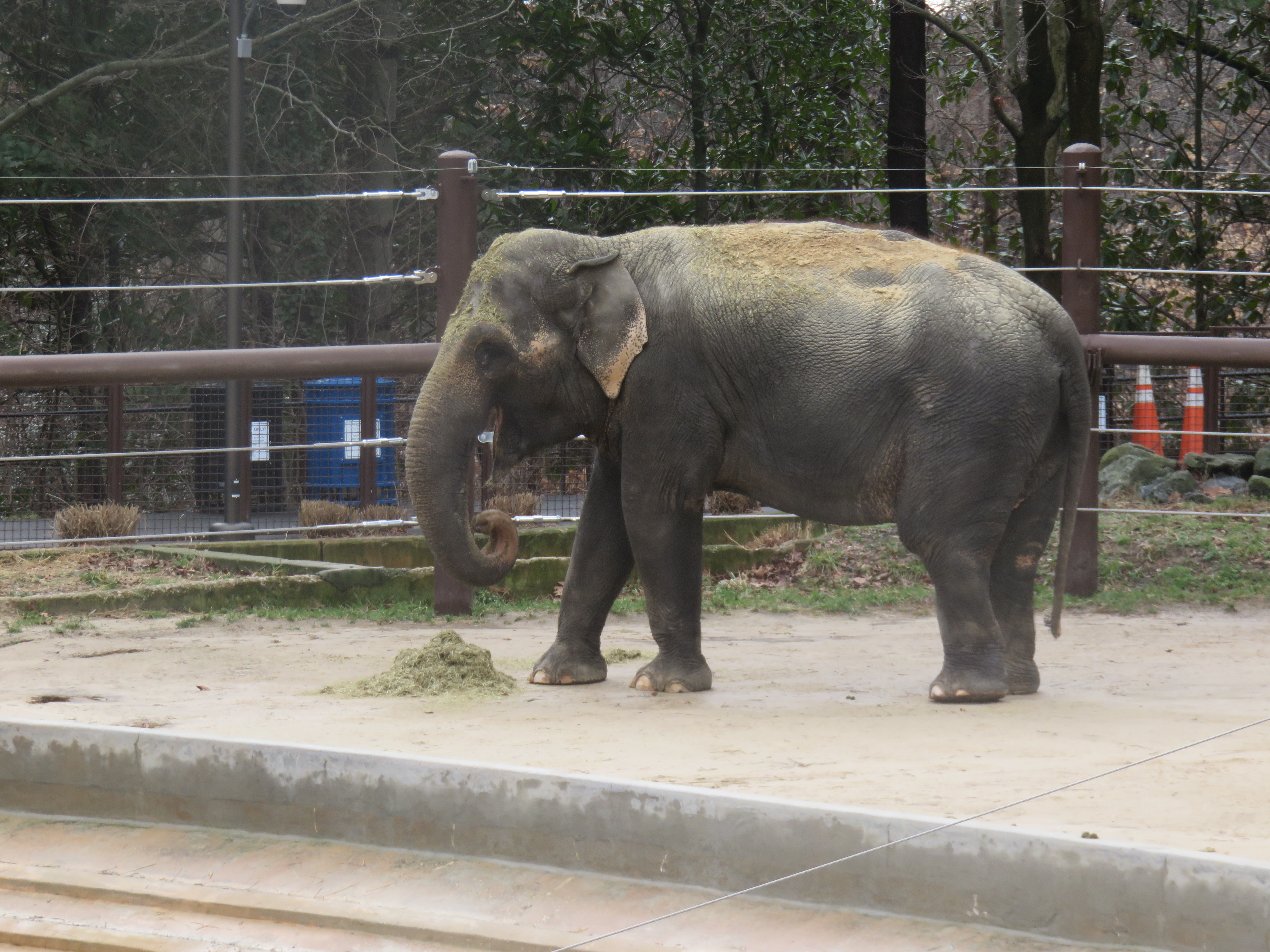 Asian Elephant at the National zoo